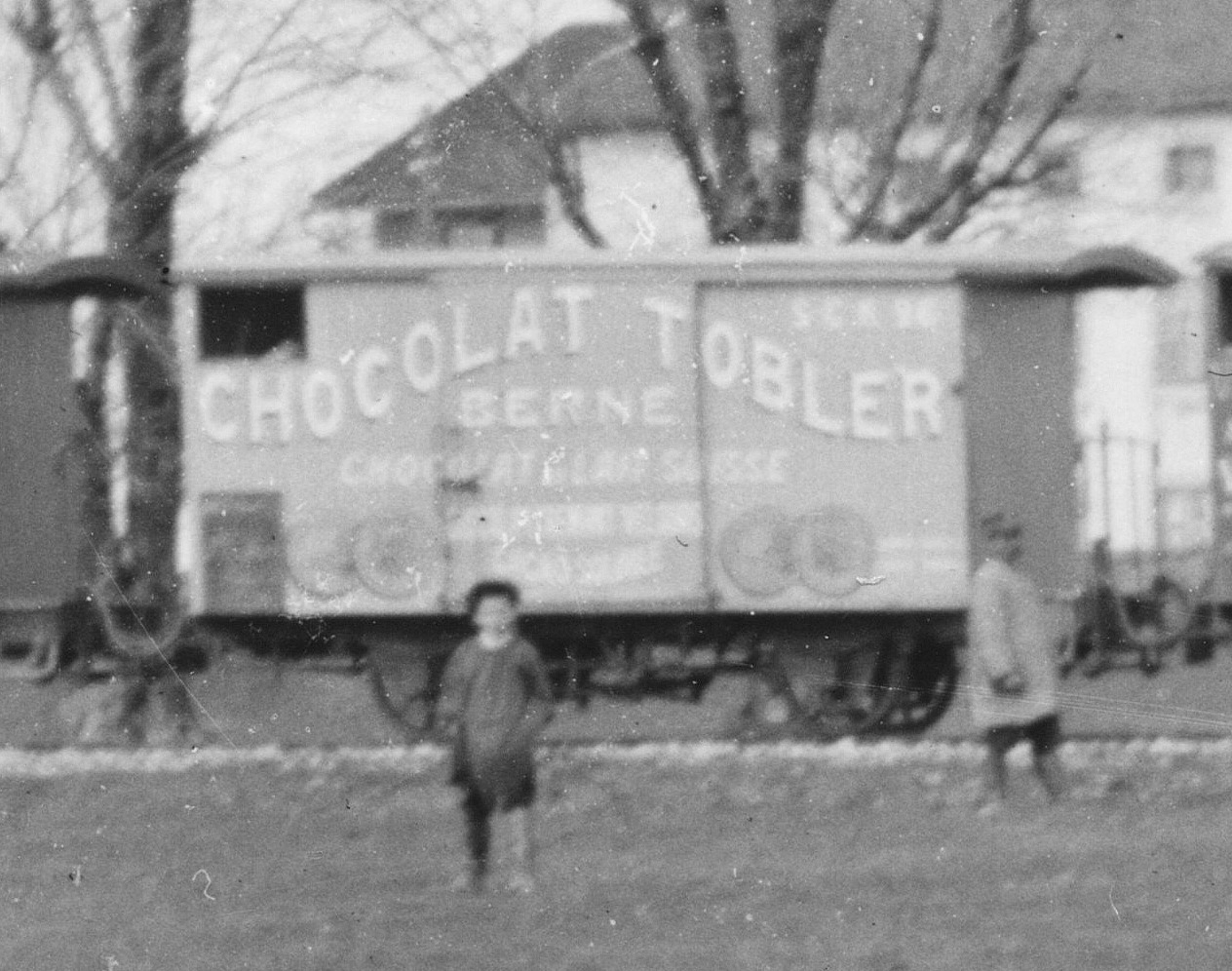 Tobler Chocolate company train car. Cropped and sharpened by the uploader.